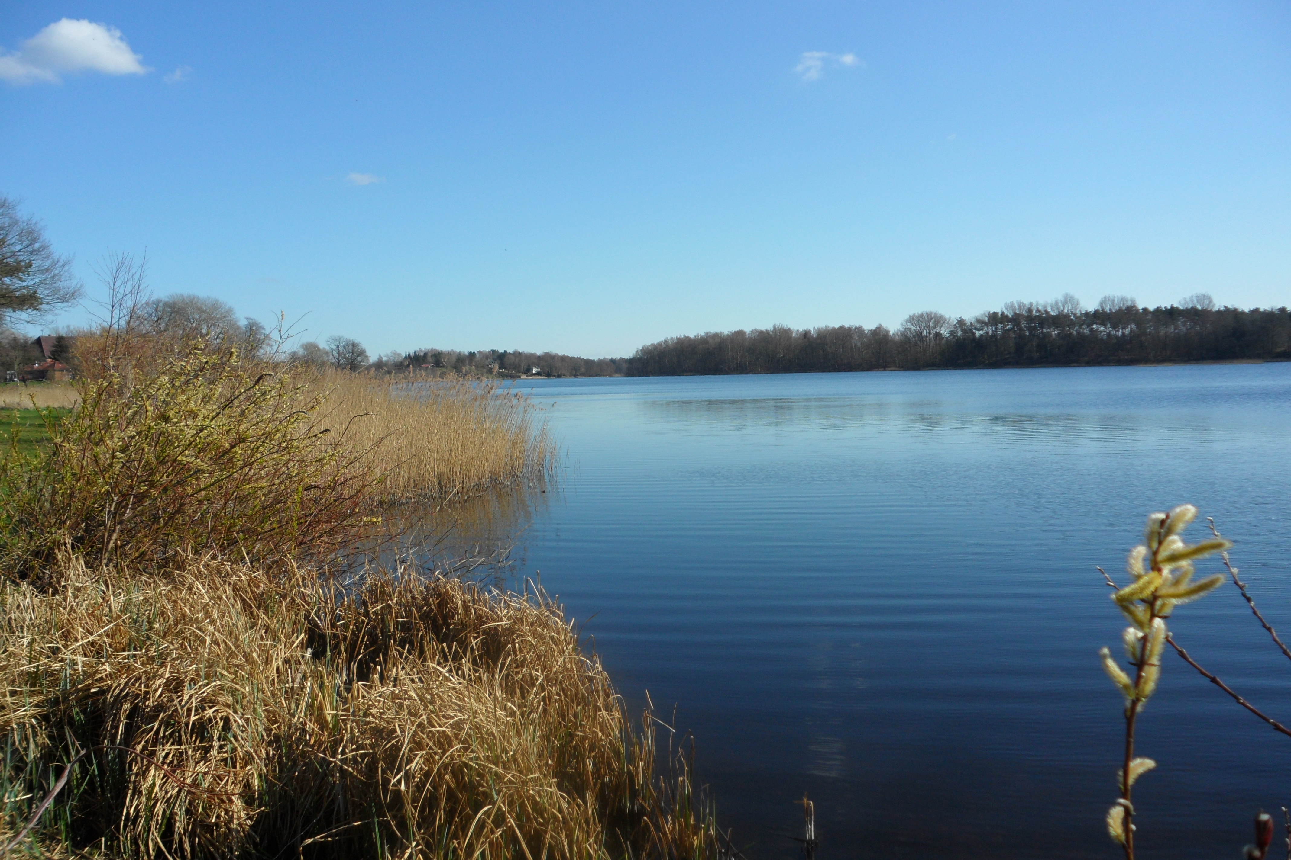 Wardersee (Rendsburg-Eckernförde) from village Warder